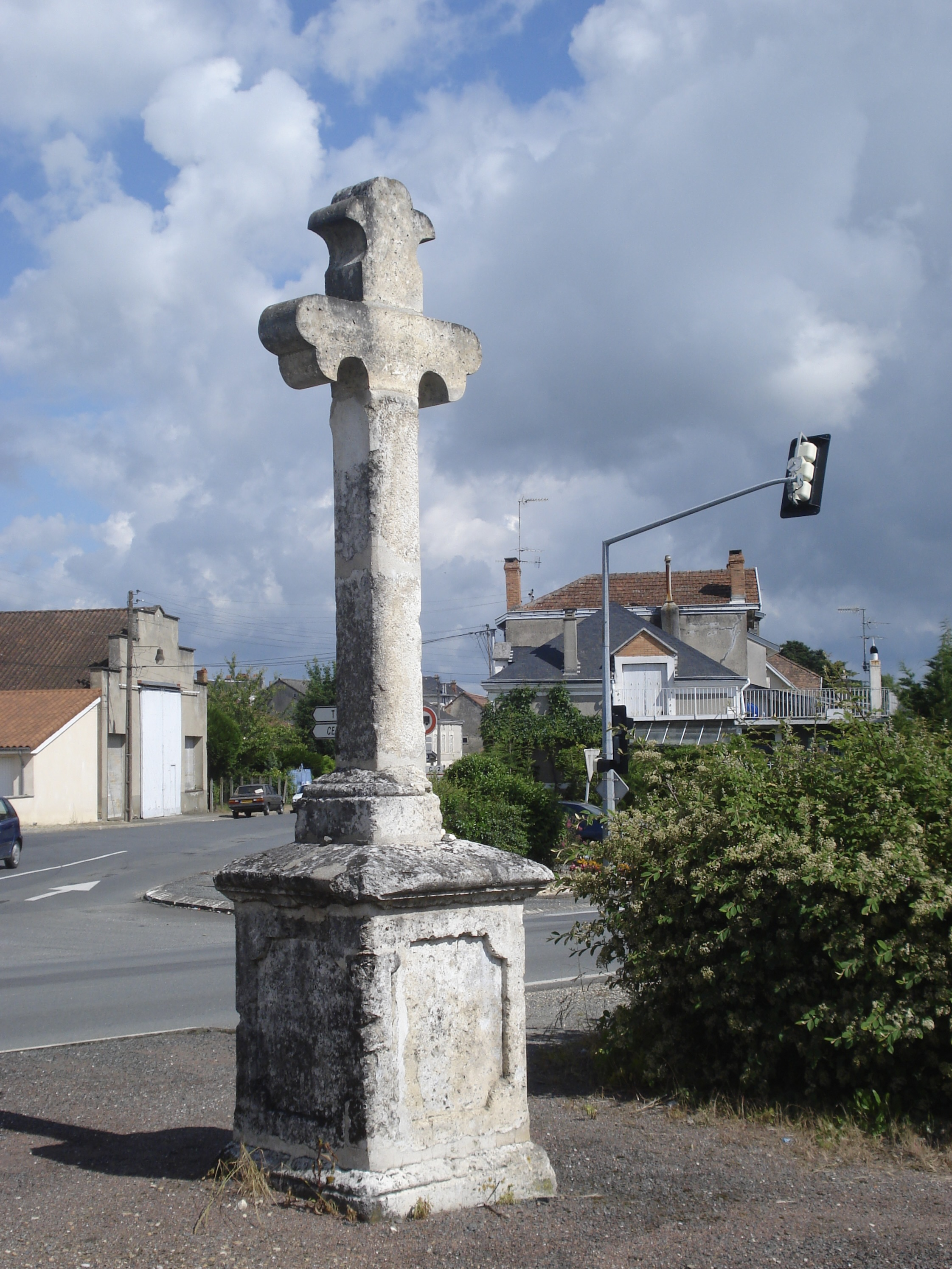 Thiviers (Dordogne, fr), St.James, cross